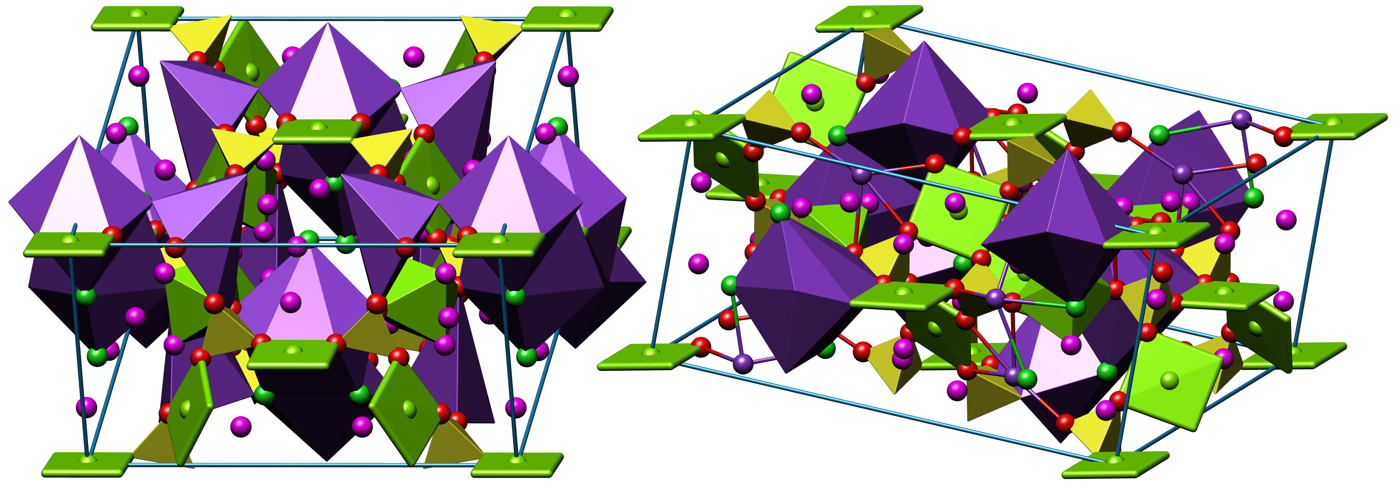 Crystal structure of kainite - KMg(SO4)Cl·3H2O. Robinson P D, Fang J H, Ohya Y; American Mineralogist 57 (1972) 1325-1332 Colour code: Potassium, K: indigo Magnesium, Mg: bright green Sulfur, S: olive Chlorine, Cl: green Oxygen, O: red Water, H2O: magenta Cell: blue